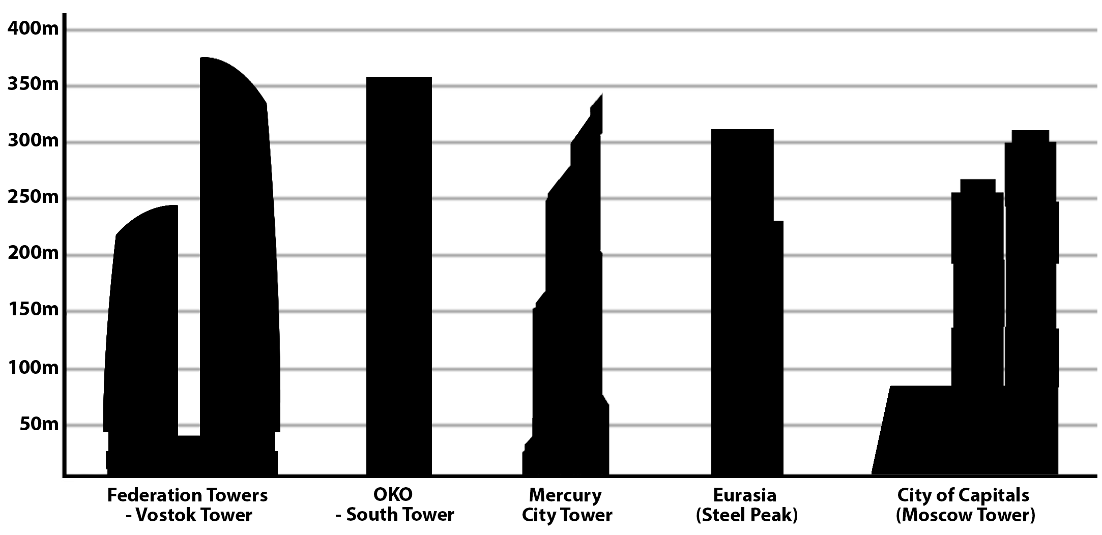 Tallest Buildings in Russia; Used data from .